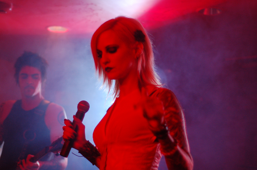 Singer Theo Kogan live with her band Theo & the Skyscrapers